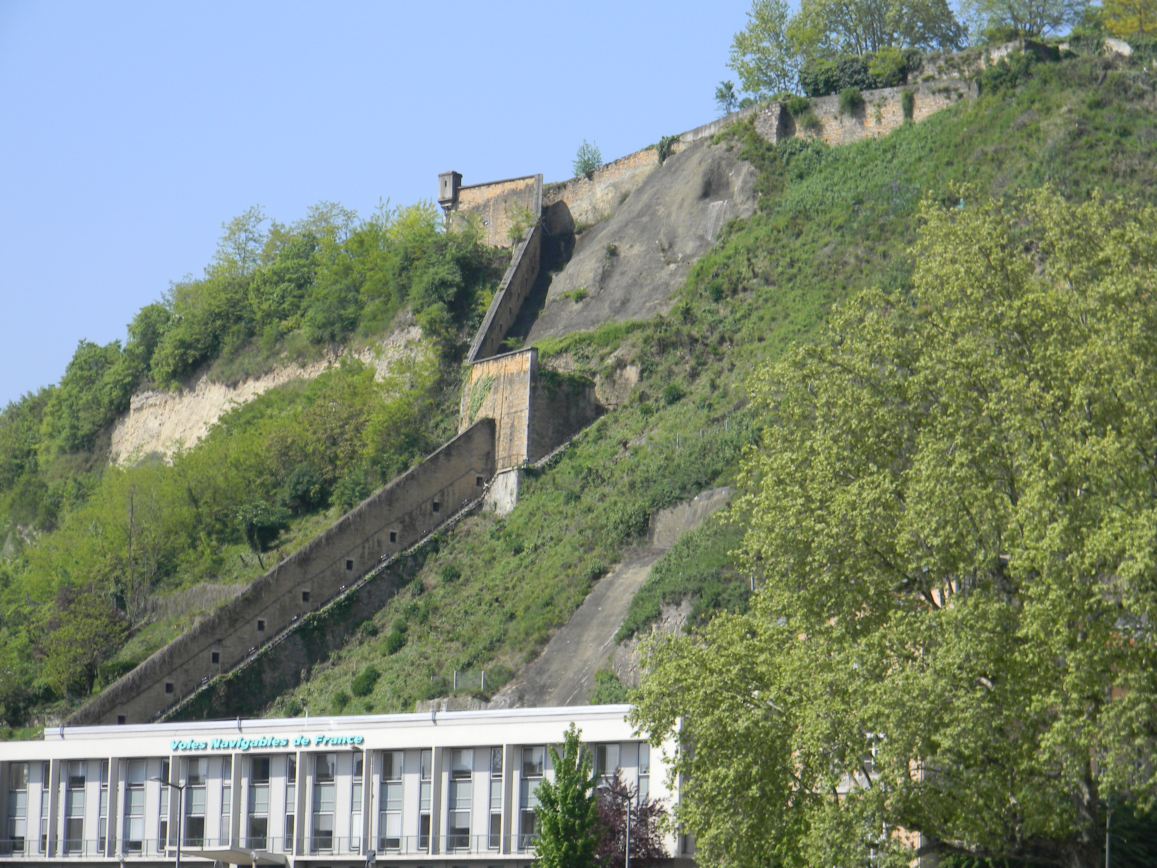 Ancient wall of Fourvière